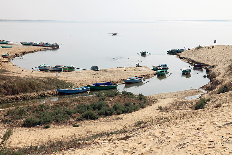 Boats at the southern lake in the Wadi el-Raiyan (Wadi el-Rayyan), Egypt